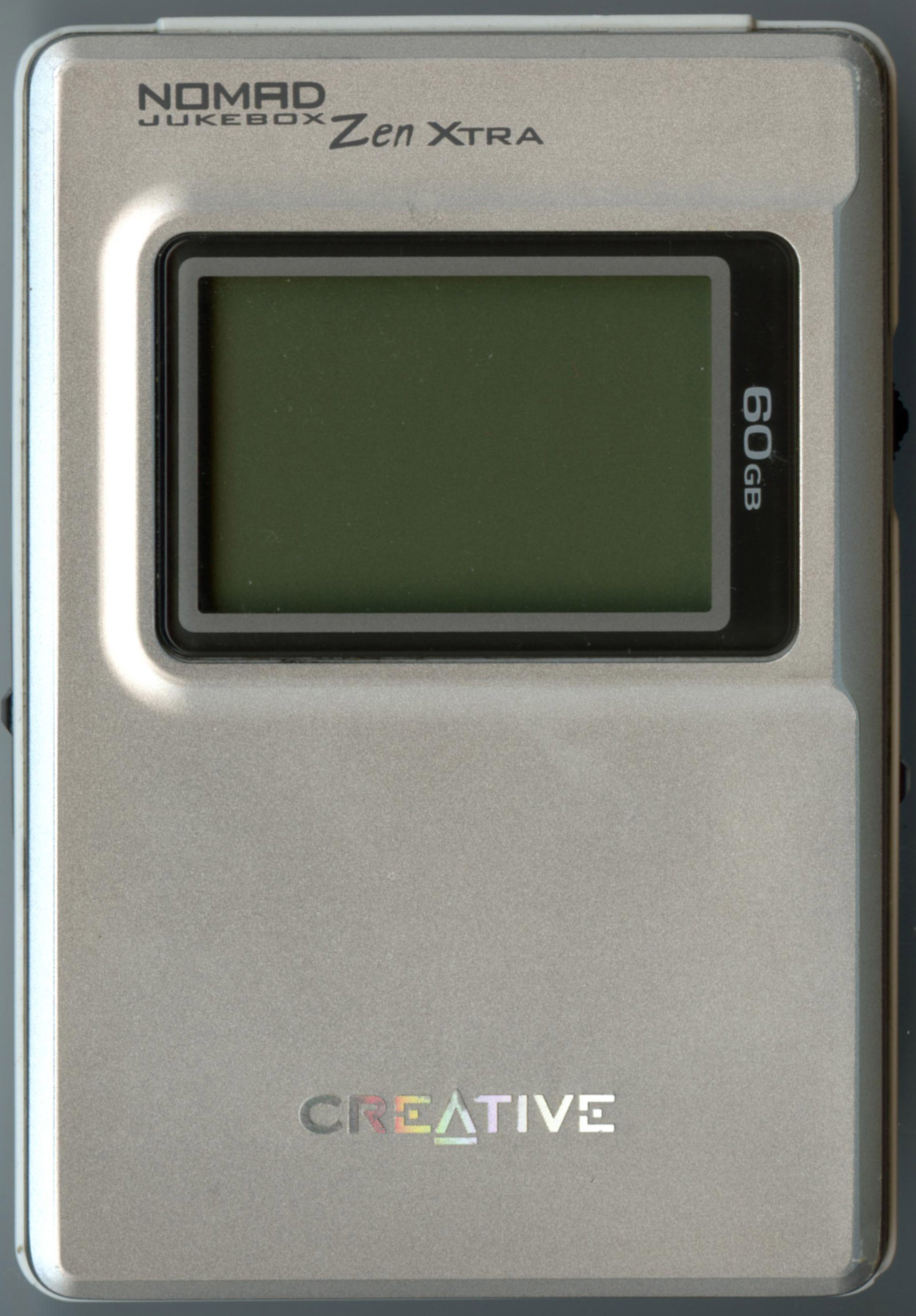 Photo of a Creative Zen Xtra 60GB MP3 Player